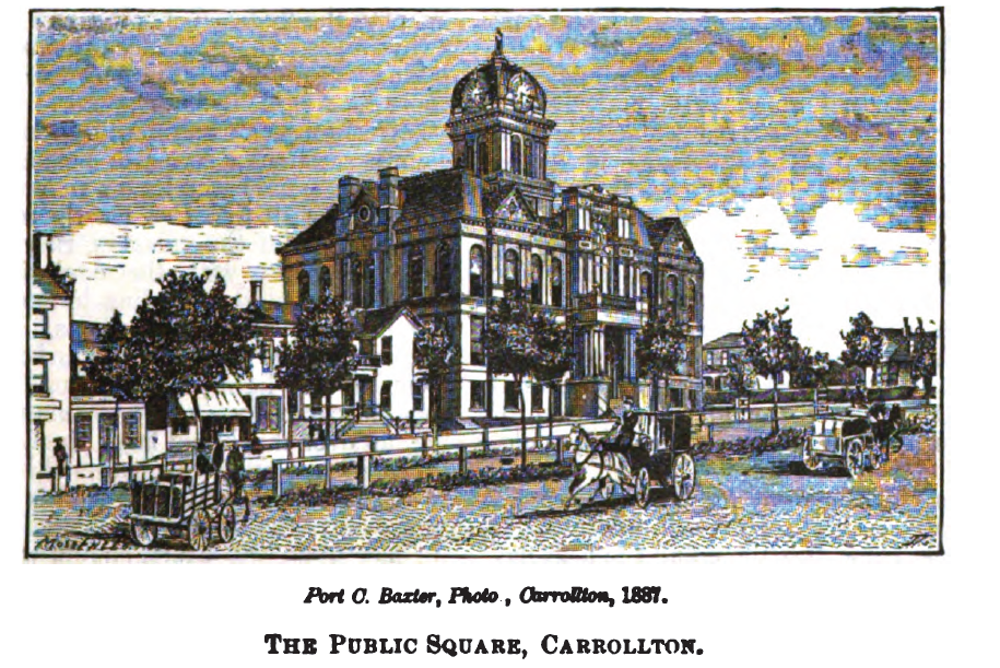 Henry Howe drawing from a Port Baxter photo of Carrollton, Ohio